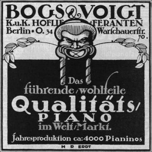 Bogs und Voigt Piano